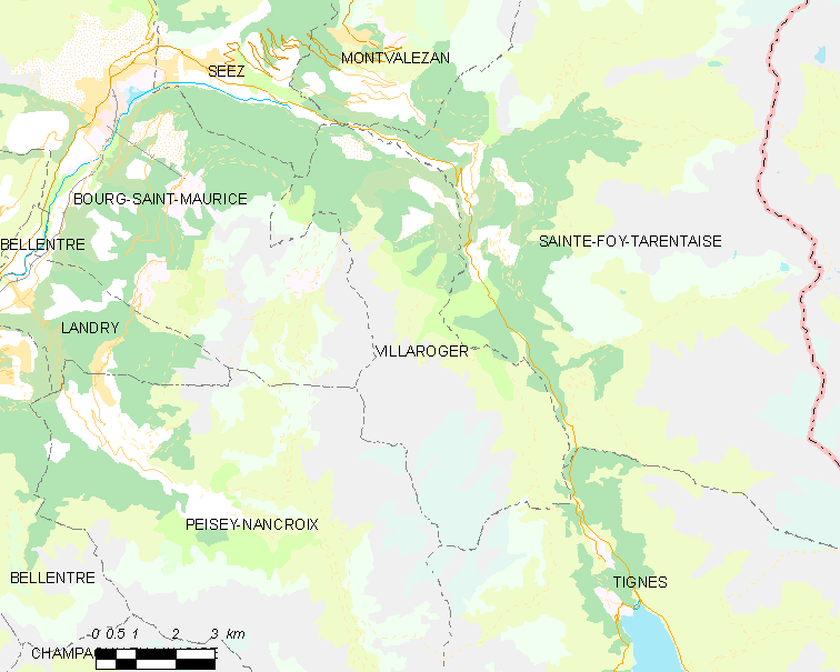 Map of French municipality Villaroger